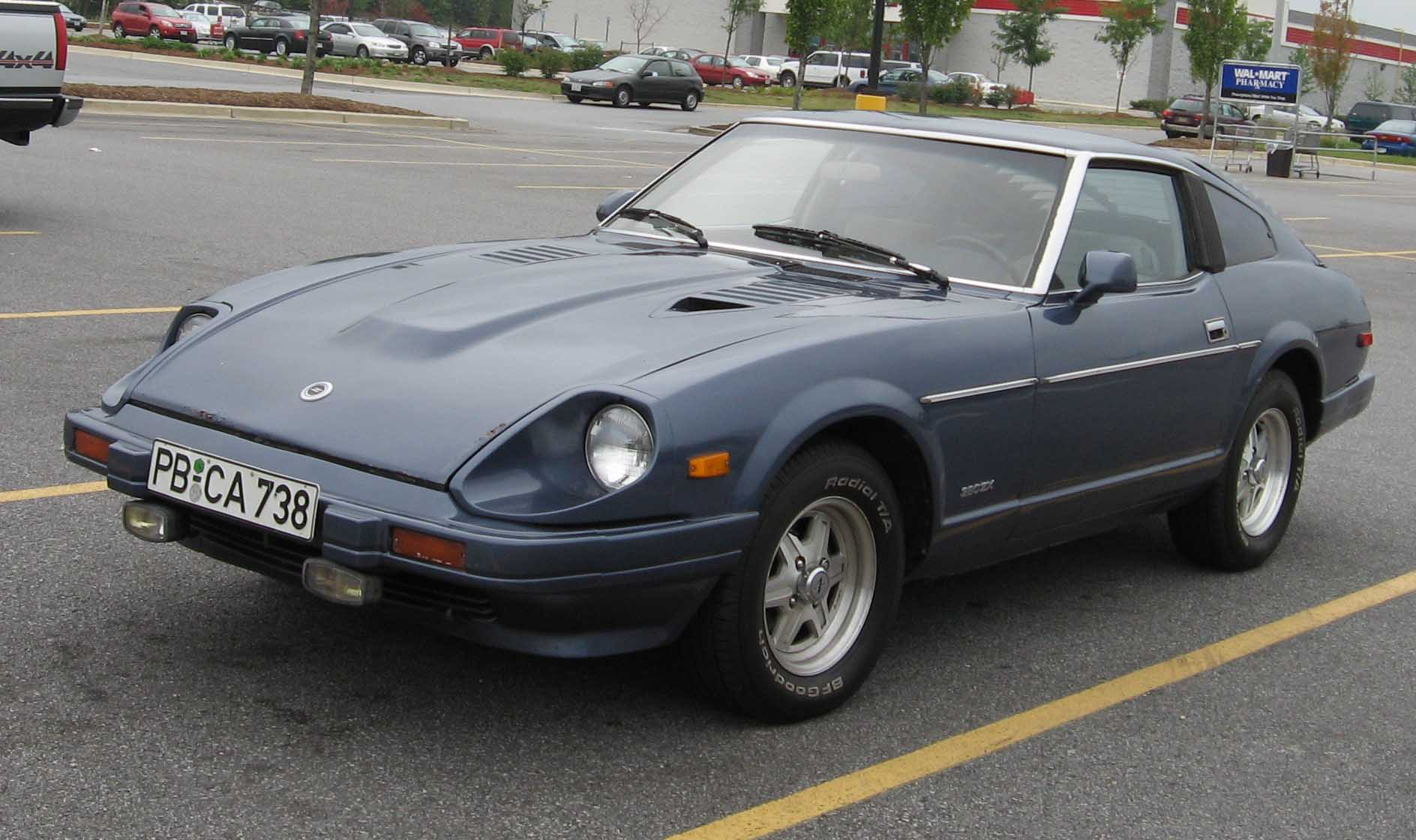 1979-1983 "Datsun by Nissan" 280ZX photographed in USA.